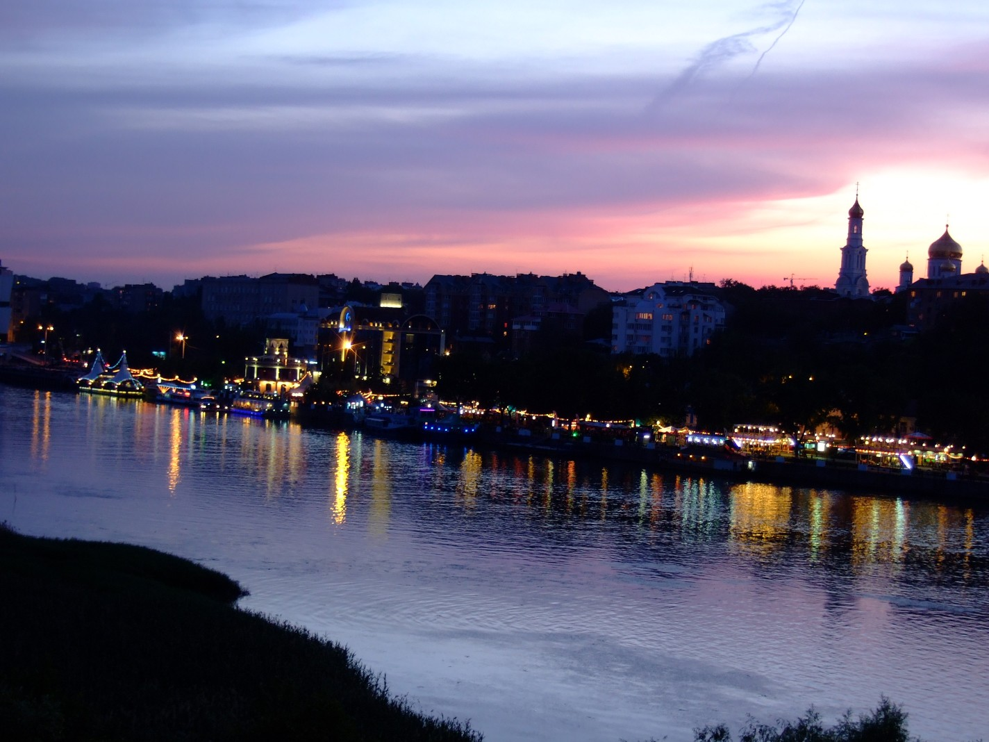 Rostov-on-Don, the quay